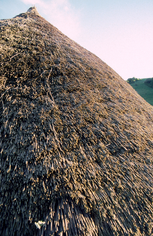 A replica Iron Age thatched roof, Butser Ancient Farm, Hampshire, United Kingdom